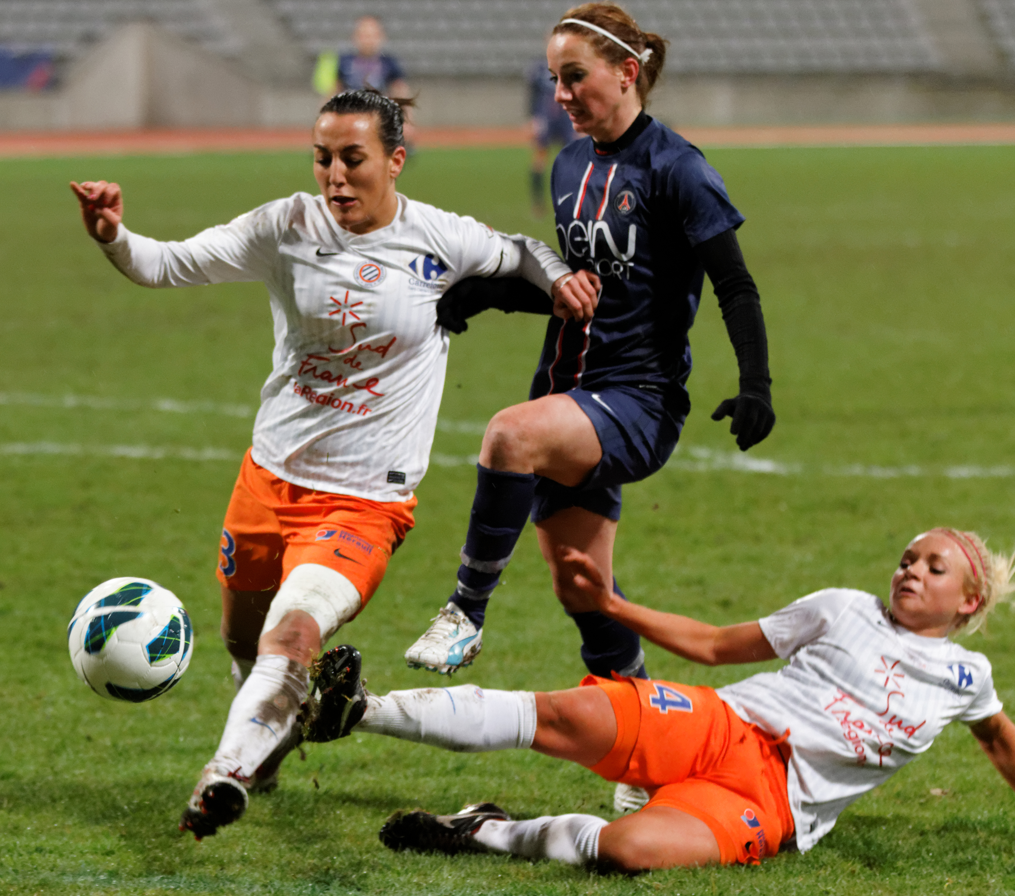 PSG-Montpellier, January 13th, 2013.